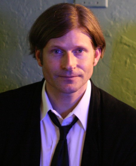 Crispin Glover